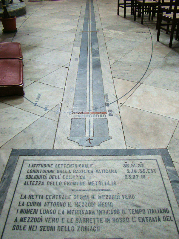 Cathedral of San Giorgio, Modica, Sicily, Italy. Solar meridian: it provides the position where the solar ray from a whole in the walls, hits the pavement at midday throughout the year.